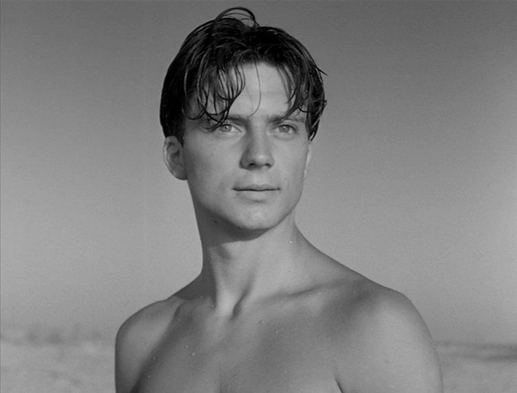 screenshot from the film Domenica d'agosto (1950)